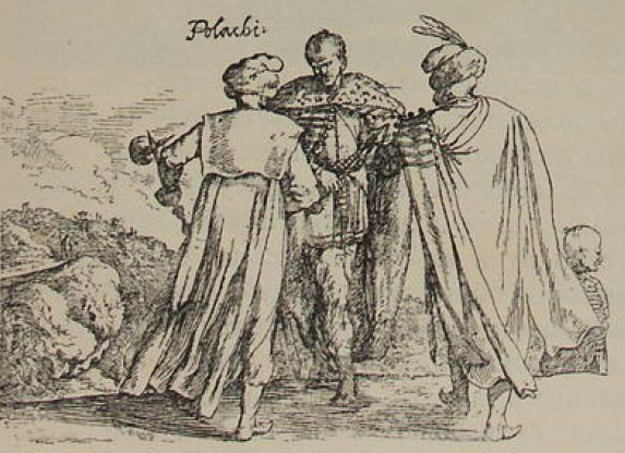 Smalenskaja Šlachta